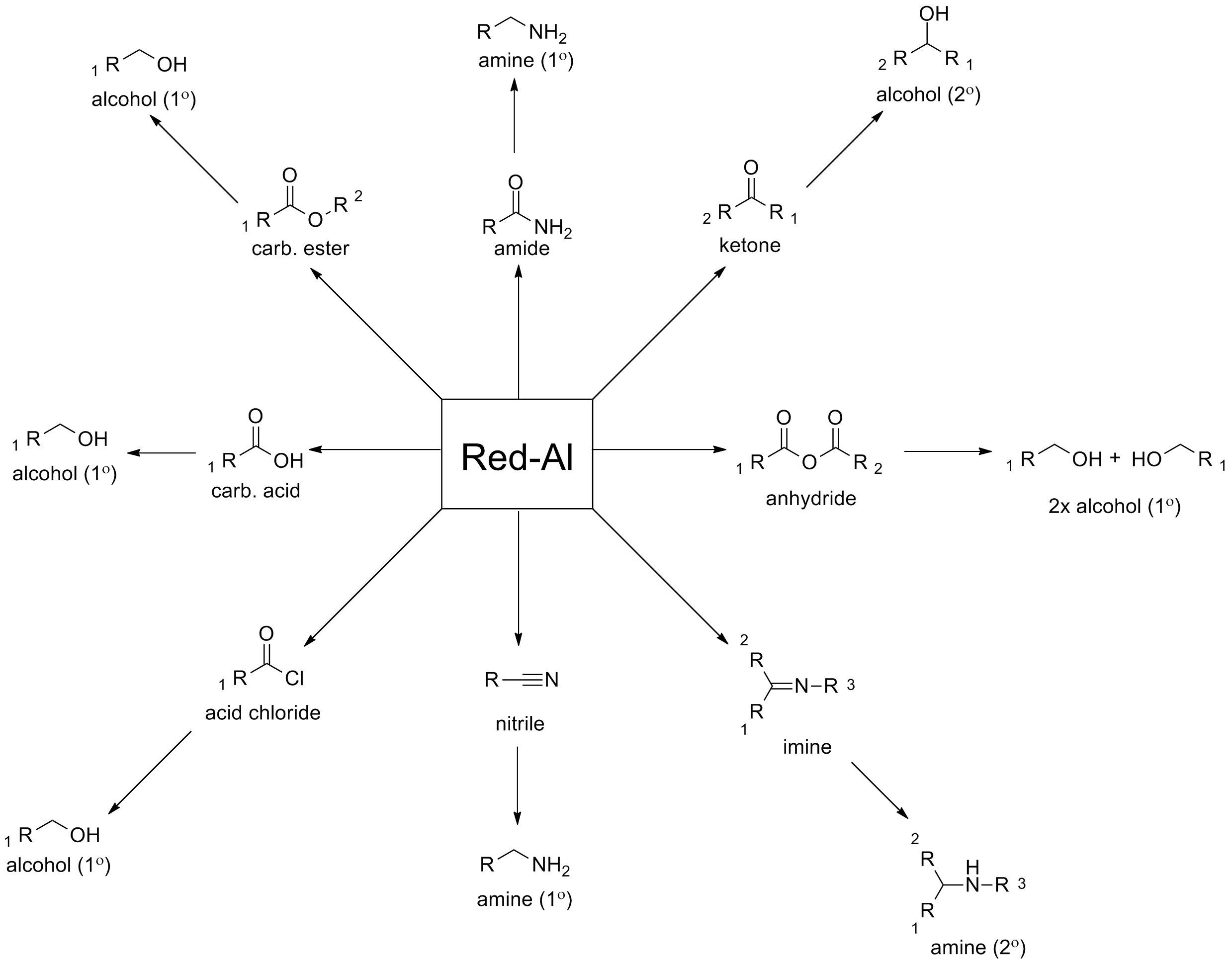 A figure demonstrating common functional group reductions using the reducing agent Red-Al.